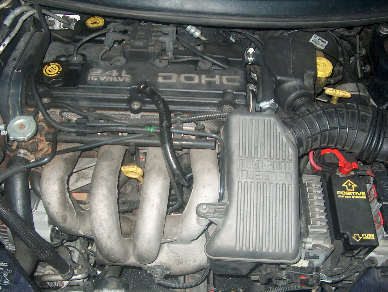 The 2.4L engine used in the cloud cars